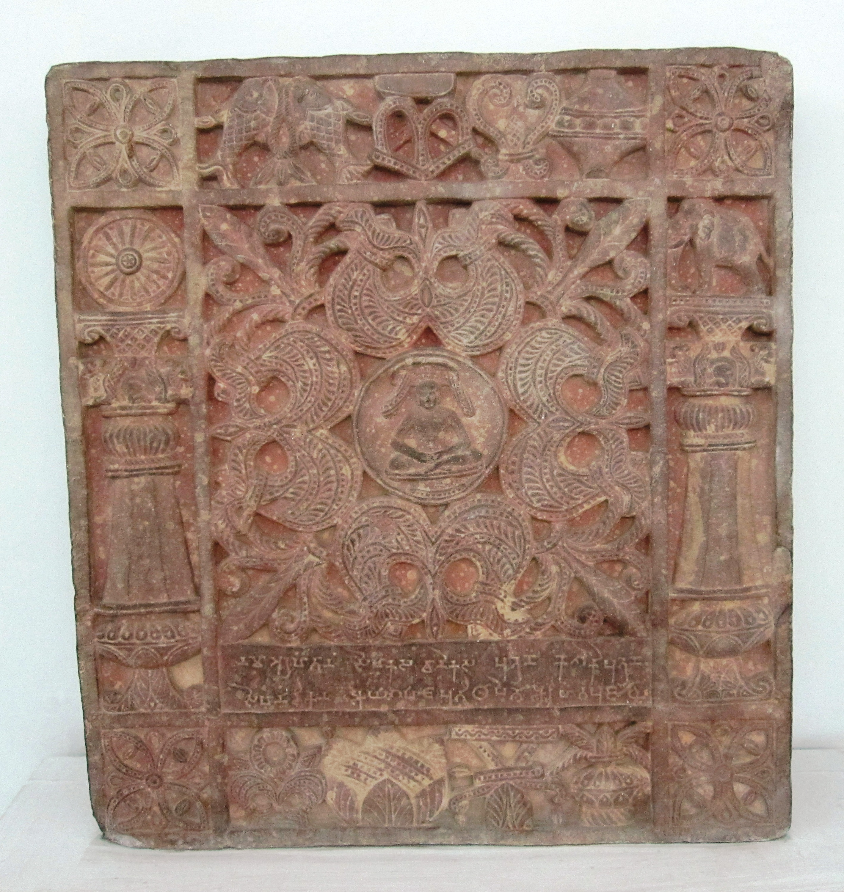 Jain votive plaque, Ayagapata (stone). Kushan, 2nd century A.D., Kankali Tila, Mathura, U.P. HxWxD (cm): 65x57.5x9.5. (Info from museum plaque.)